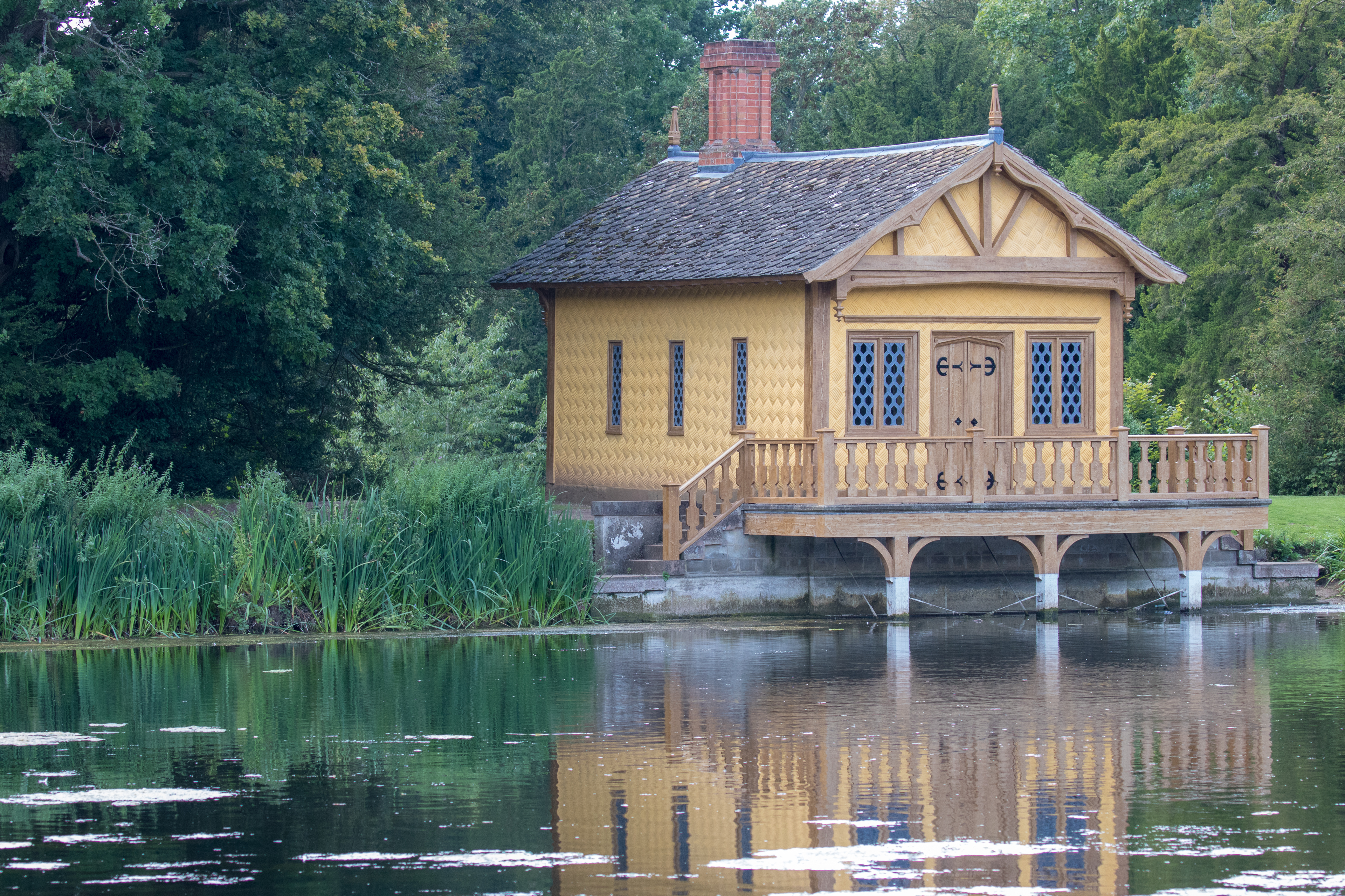 Boathouse At The South End Of Boathouse Pond 600 Metres East Of Belton House Wikidata has entry Q26555628 with data related to this item.